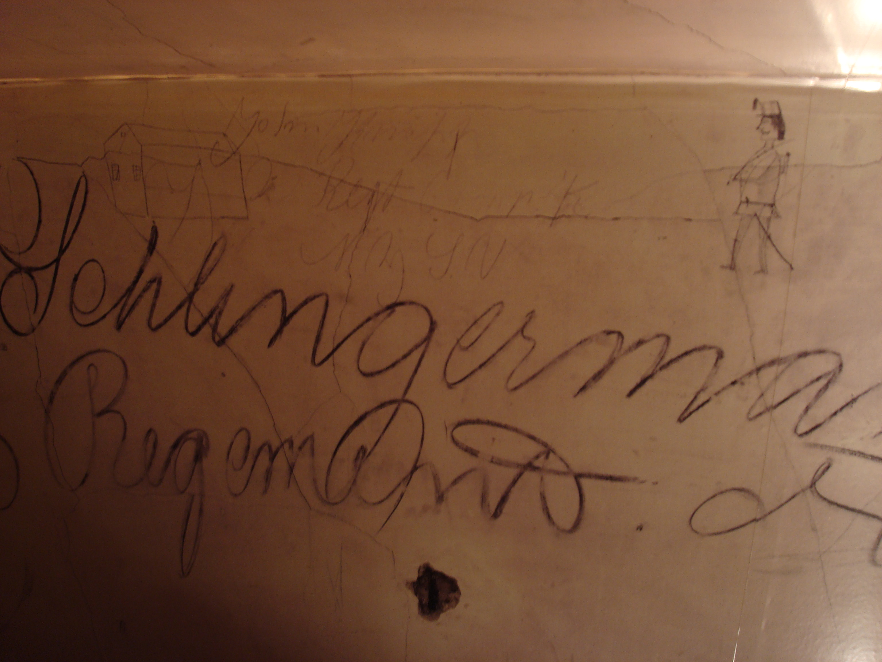 Example of inscriptions inside Historic Blenheim, Fairfax County, Virginia